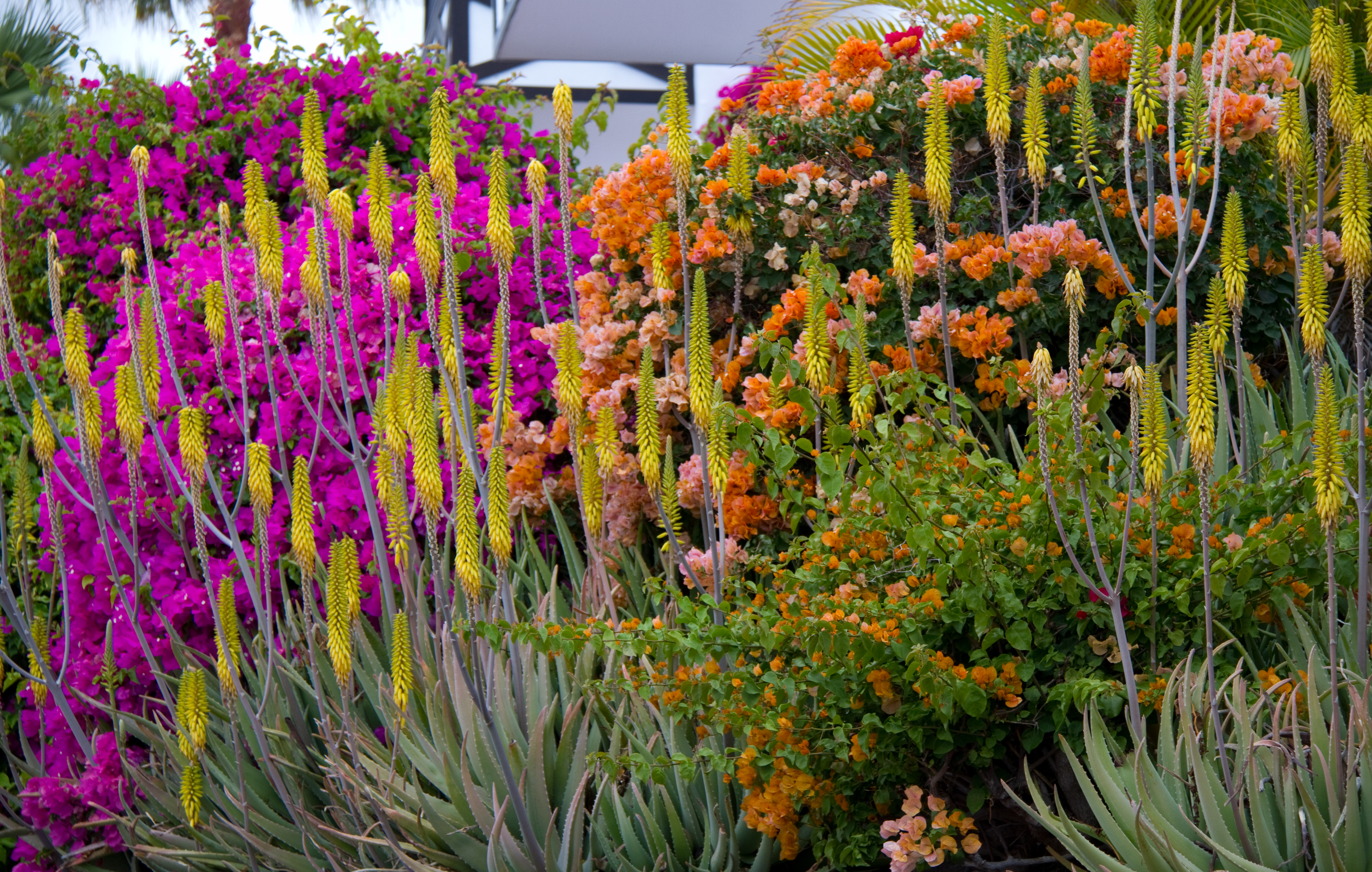 View of garden Hotel Jardin Tecina, 38811 Playa Santiago, Santa Cruz de Tenerife, Spanje. Gelegen in Playa de Santiago